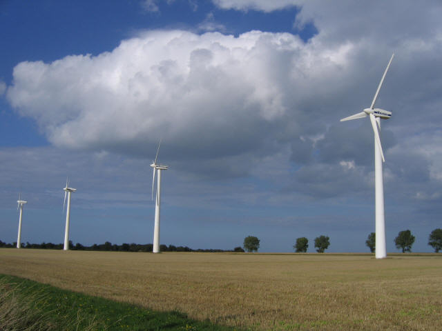 East Somerton "Blood Hill" wind farm, Norfolk